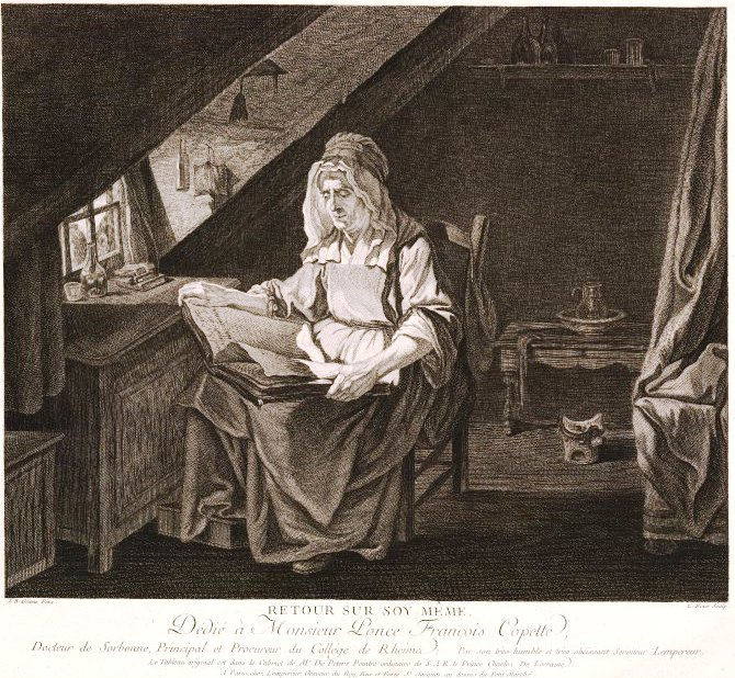 Retour sur soi-mêmeElderly woman, sitting at a table in an attic, and reading a book on saints' lives. Engraving c.1764 Engraving by Louis Binet after Jean Baptiste Greuze, published by Louis Simon Lempereur